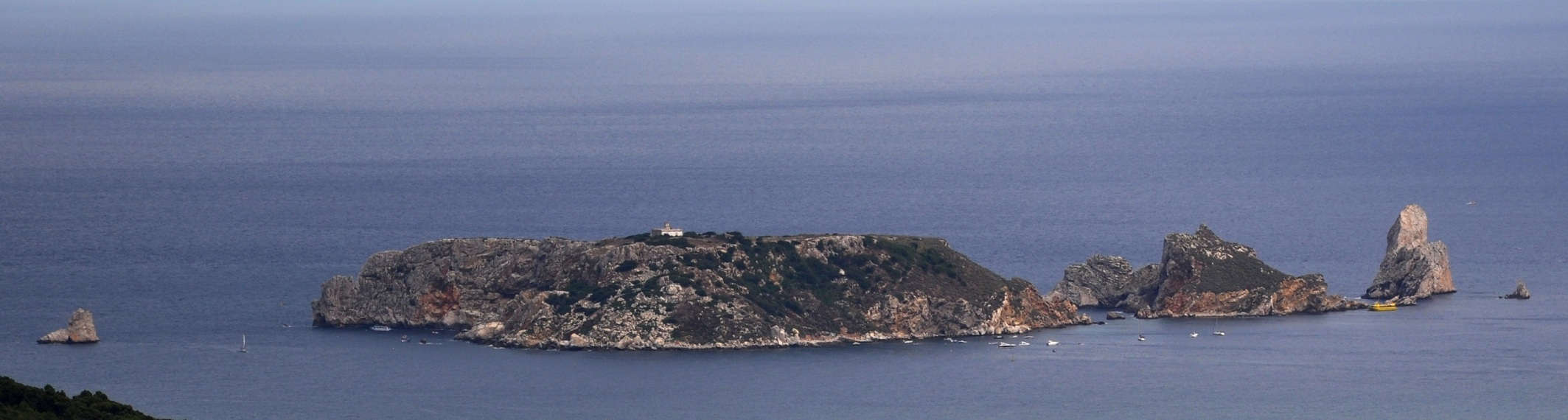 The Medes Islands in the Mediterranean, just off the coast at L'Estartit (Catalonia, Spain), seen from Montplà (311 m) in the Montgrí Massif some 5 miles away.